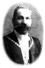 Raimund Friedrich Kaindl